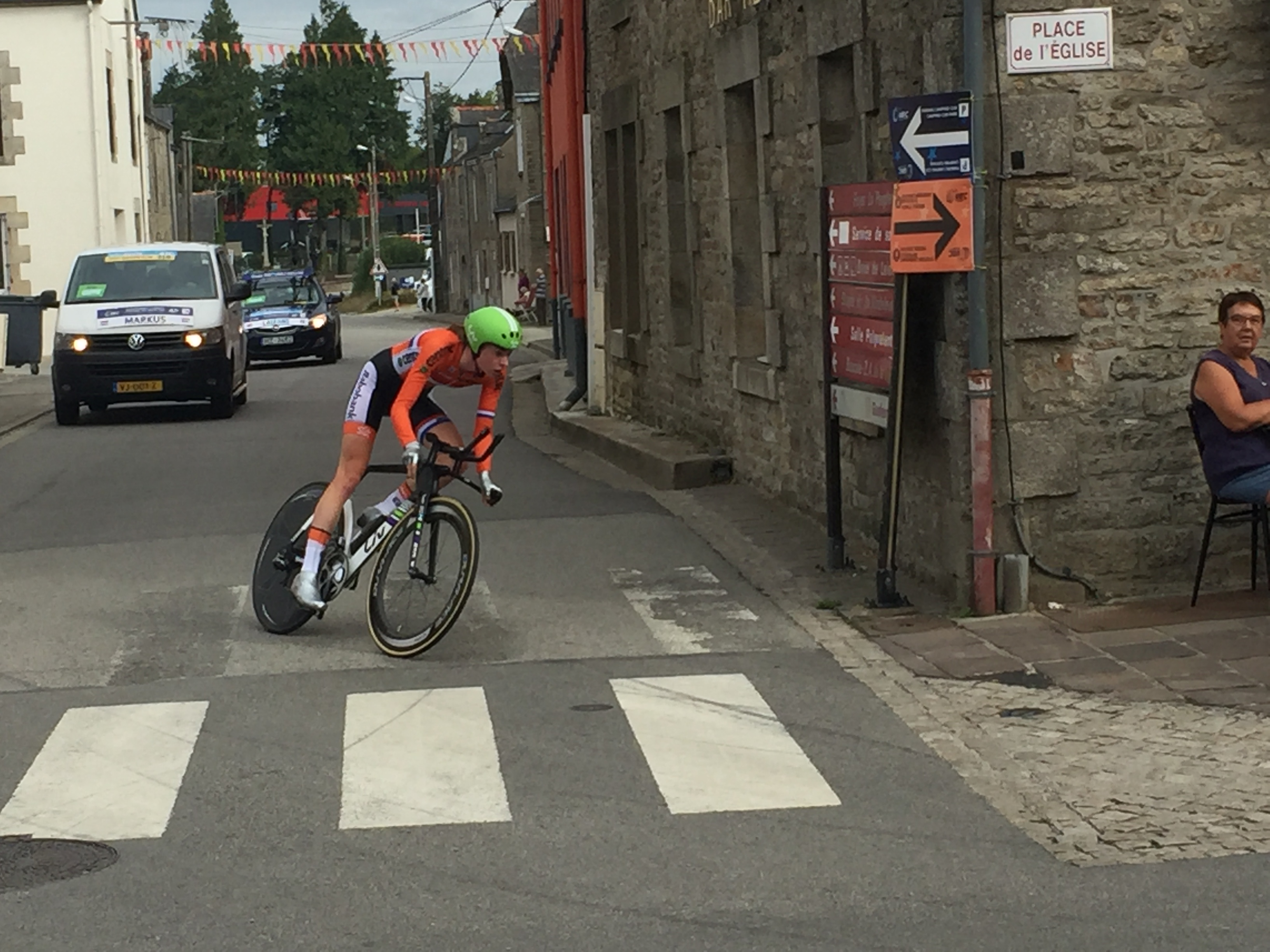 2016 Road World Championships